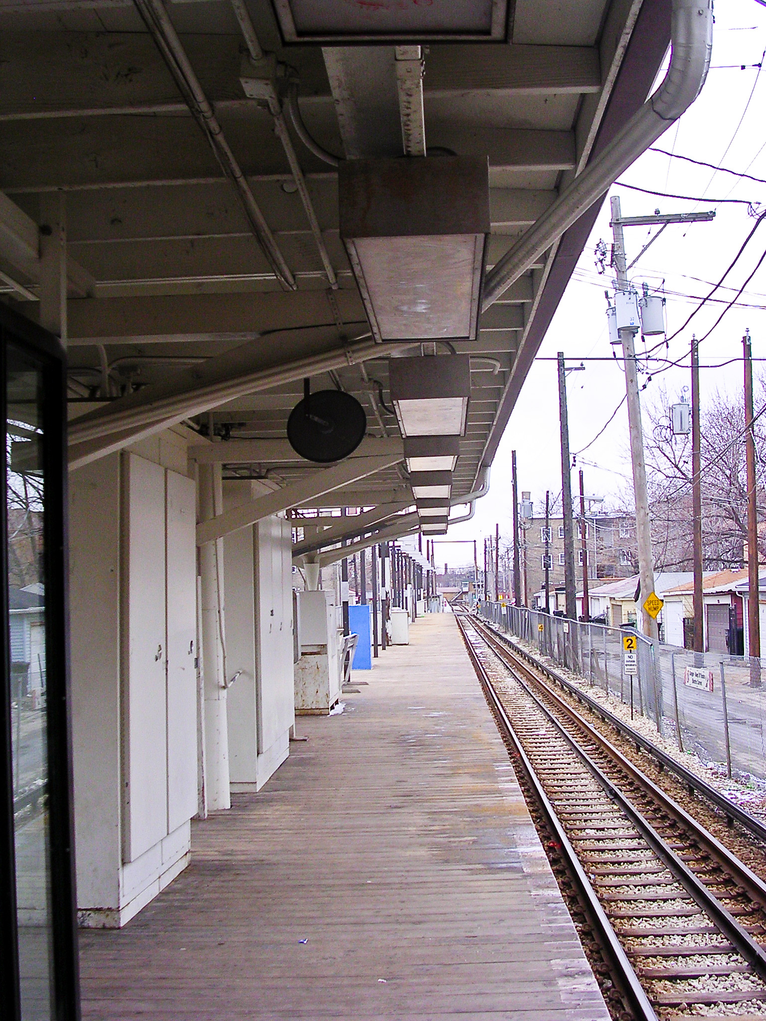 Kedzie Station on the CTA Brown Line prior to rebuilding